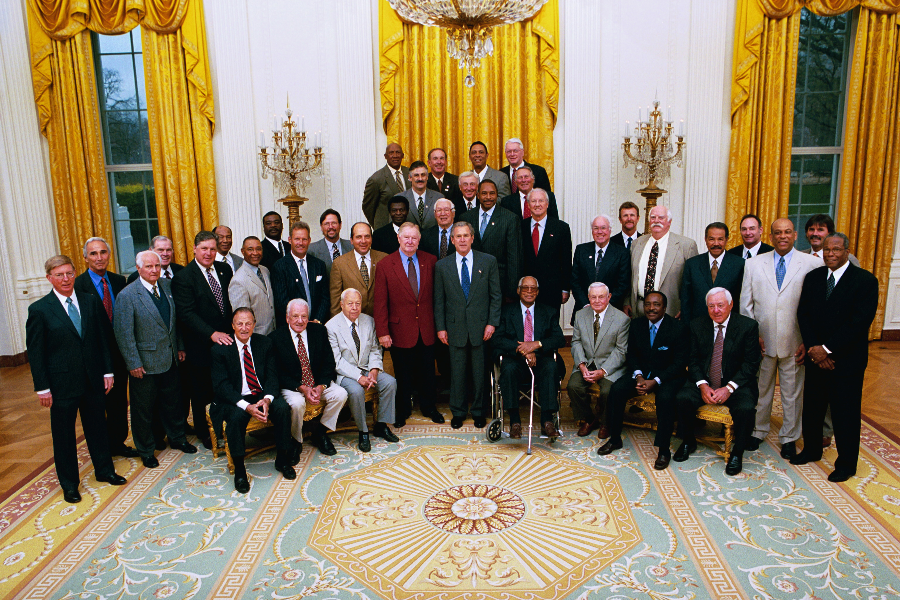 George W. Bush Luncheon with Members of the Baseball Hall of Fame in 2004